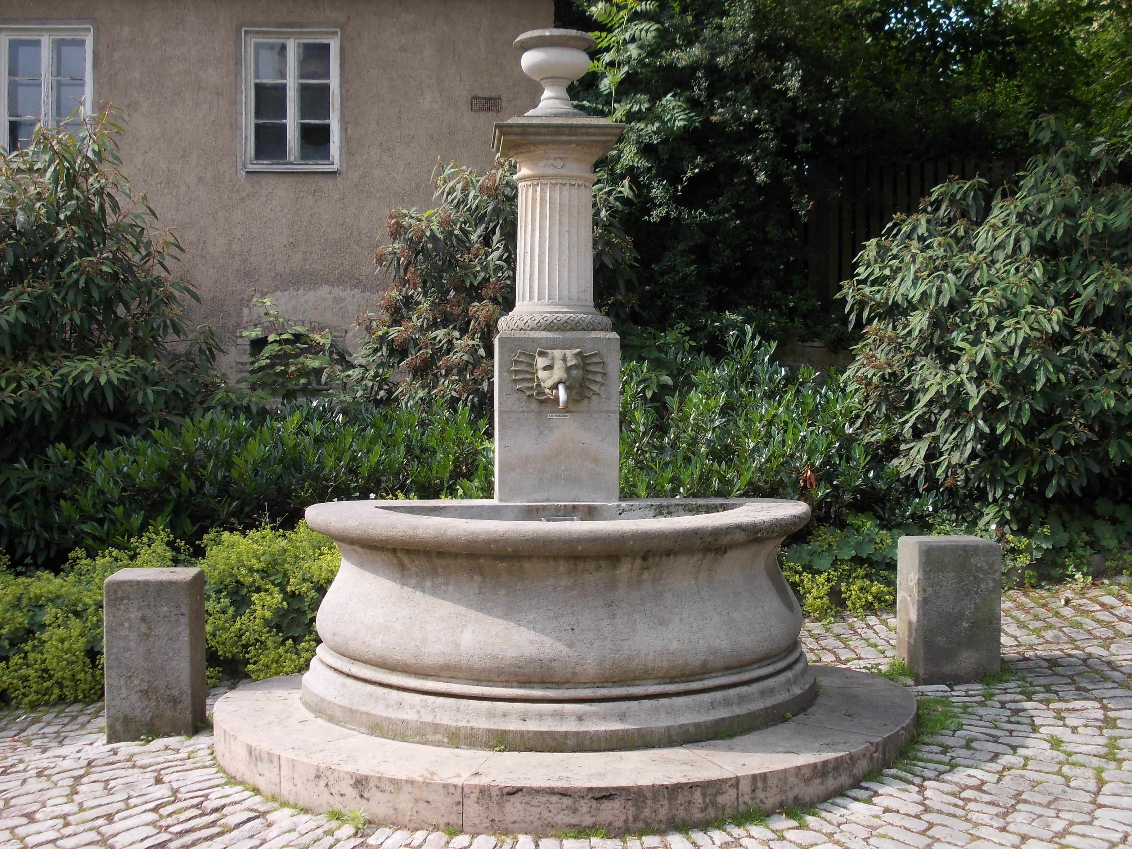 Bode Fountain in Weimar (Thuringia)